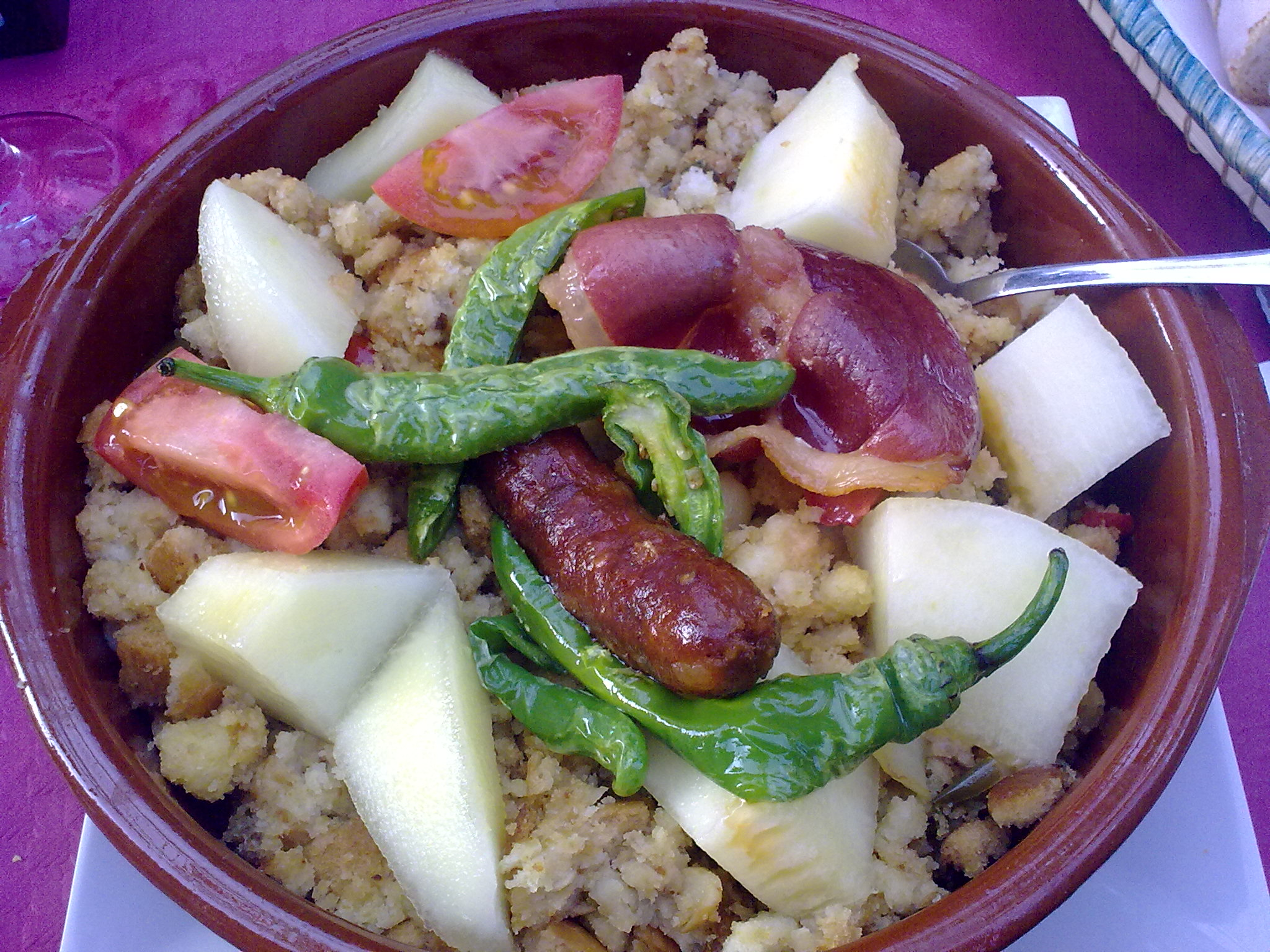 Migas. Plato típico de Beas